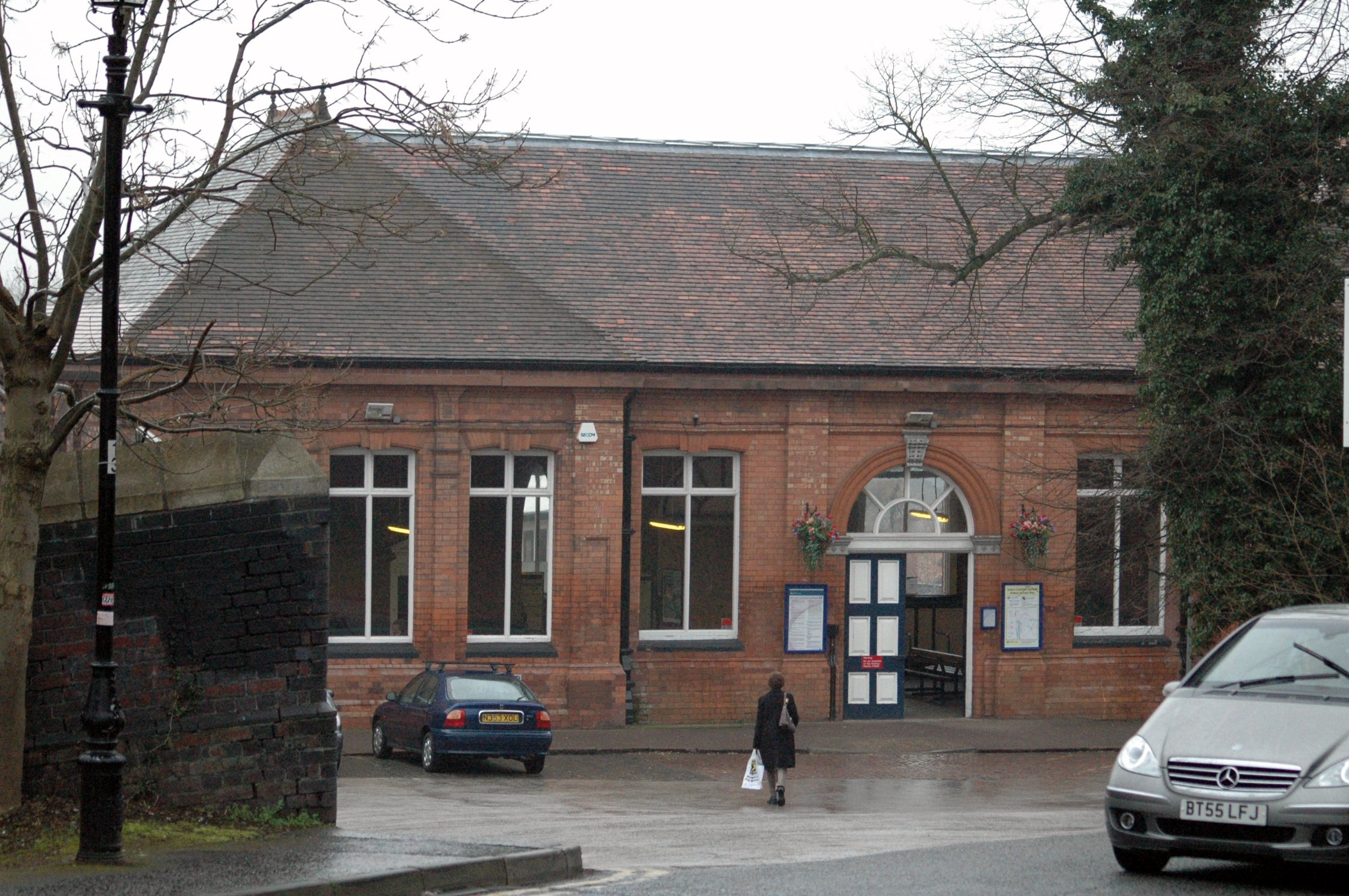 Sutton Coldfield railway station is the main railway station for Sutton Coldfield, Birmingham, England.